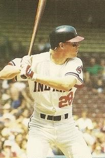 Image cropped from a baseball card of Cleveland Indians player Cory Snyder from the 1987 Action SuperStars Series 3 set.